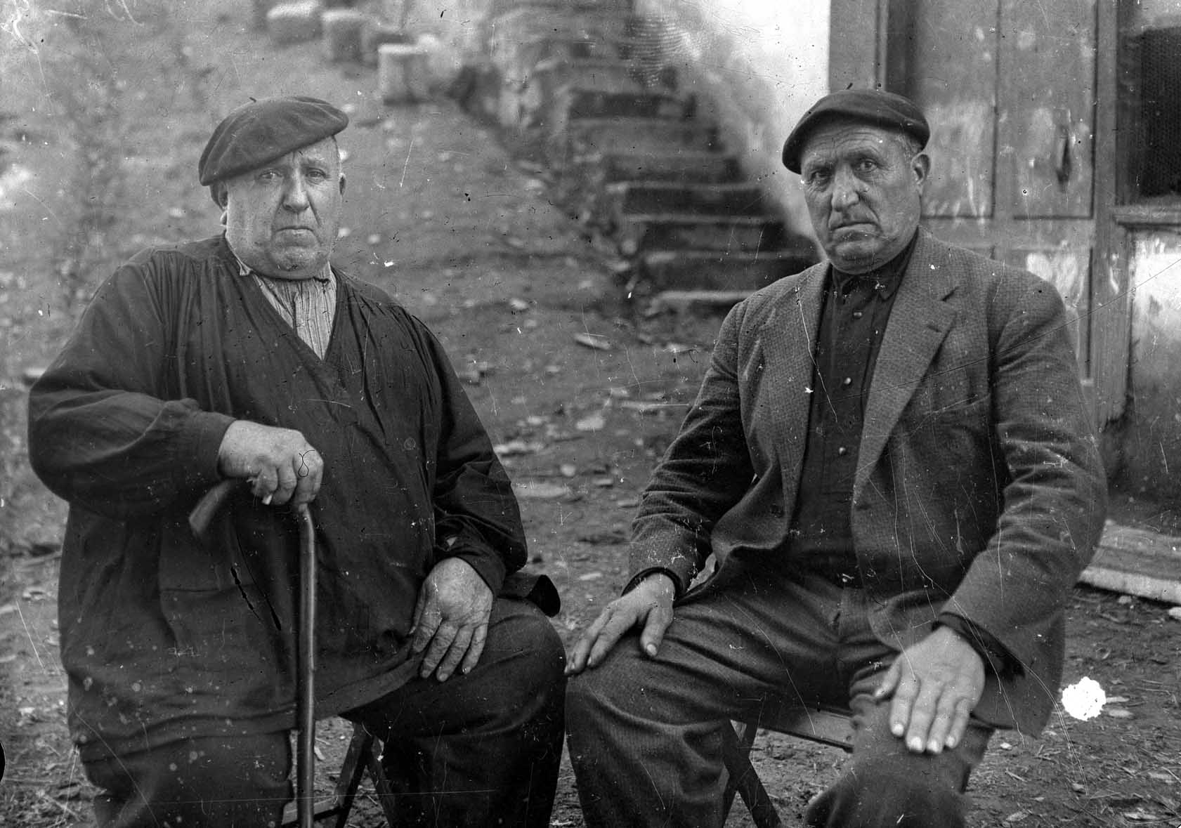 Photo of Txirrita and Saiburu basque bertsolaris.